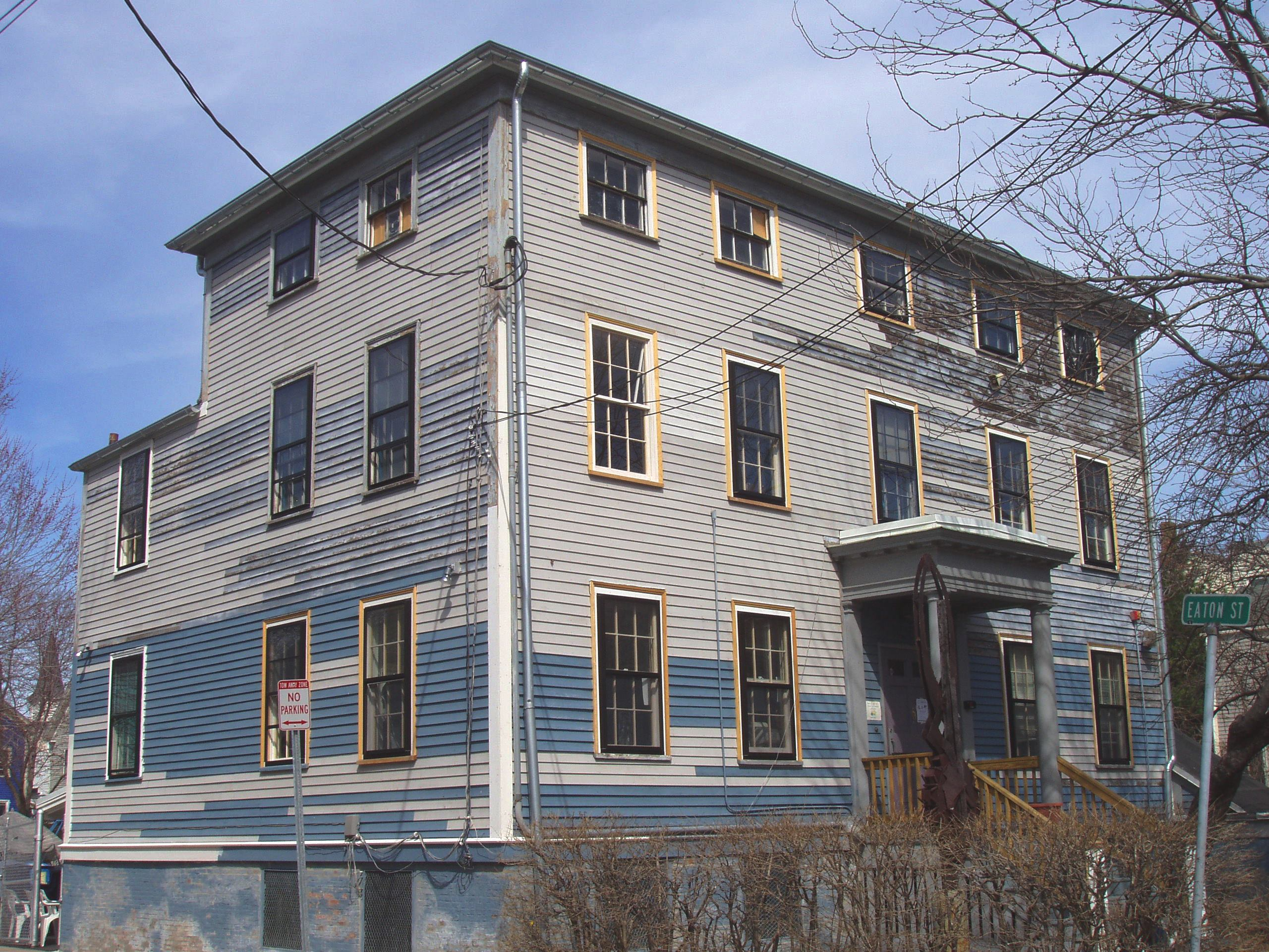 Photograph of Margaret Fuller House, 71 Cherry Street, Cambridge, Massachusetts, USA.